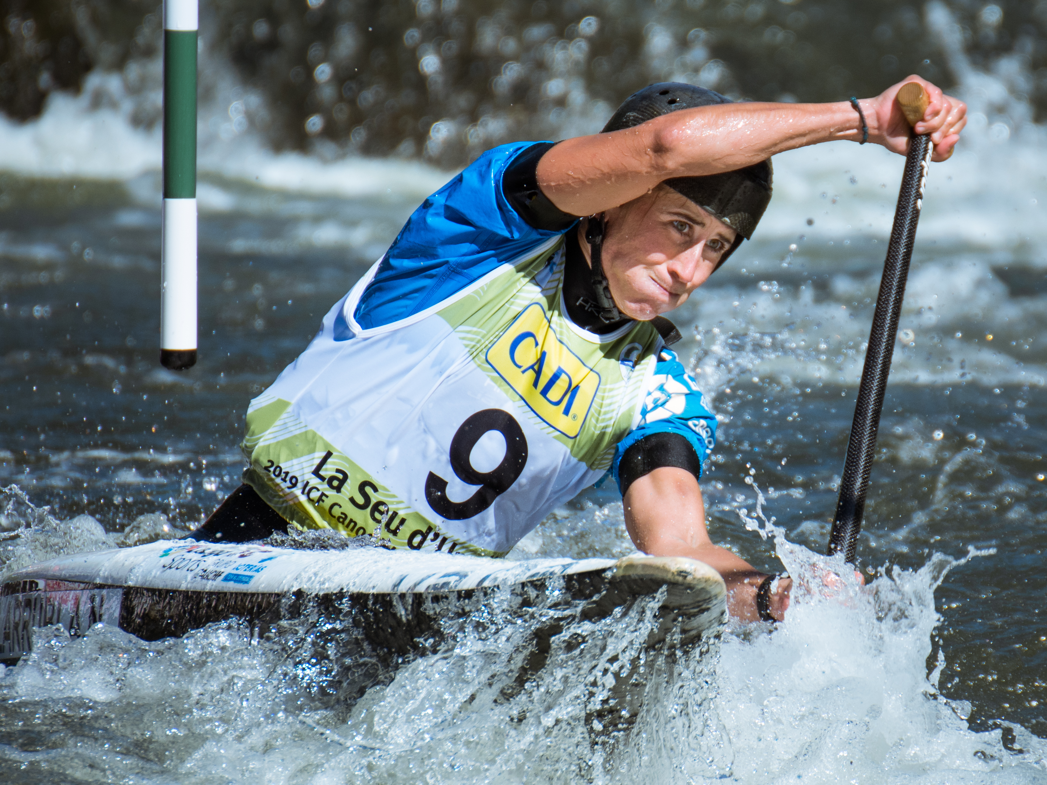 Núria Vilarrubla during the 2019 Canoe Slalom World Championships in La Seu d'Urgell, Spain.